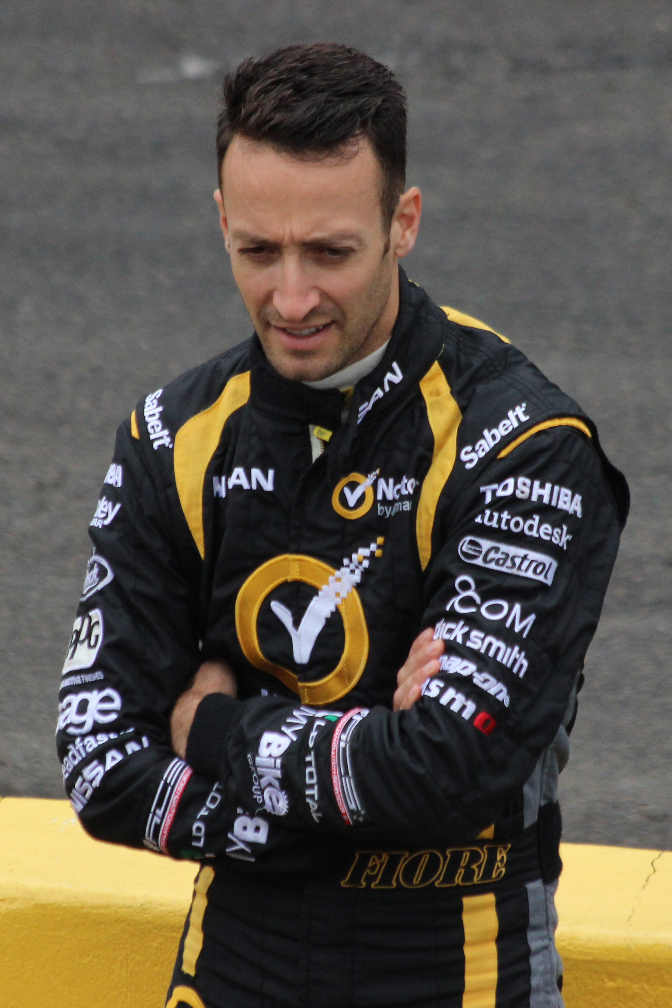 Dean Fiore standing on the pit wall at Sydney Motorsport Park during Round 8 of the 2015 Shannons Nationals Motor Racing Championships. Fiore contested the Australian 4 Hour in an Audi TT RS, finishing second with Mark Eddy.